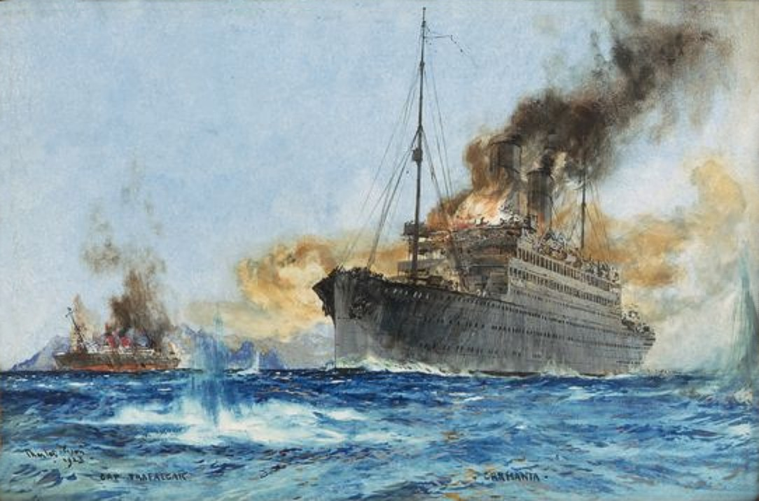 Charles Dixon (1872-1934) The 'Carmania', the first transatlantic liner to be fitted with turbines, was taken over by the navy as an armed merchant cruiser at the beginning of the First World War. In September 1914 she fought a duel in the South Atlantic against the German armed merchant cruiser 'Cap Trafalgar' which she sank. The watercolour is signed and dated 1923.